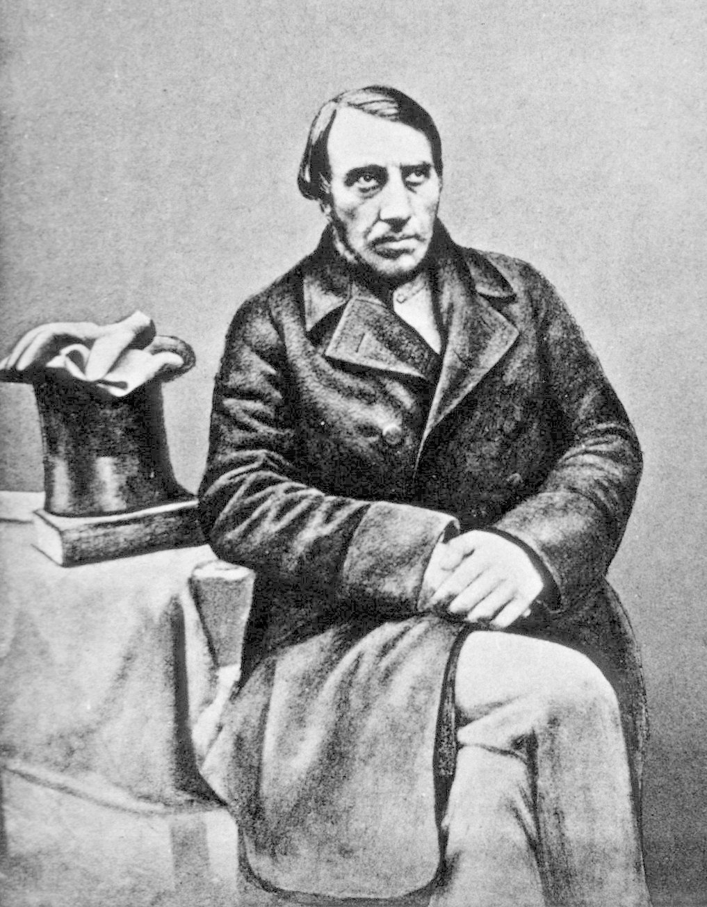 John Goodsir FRS FRSE MWS (March 20, 1814 – March 6, 1867)